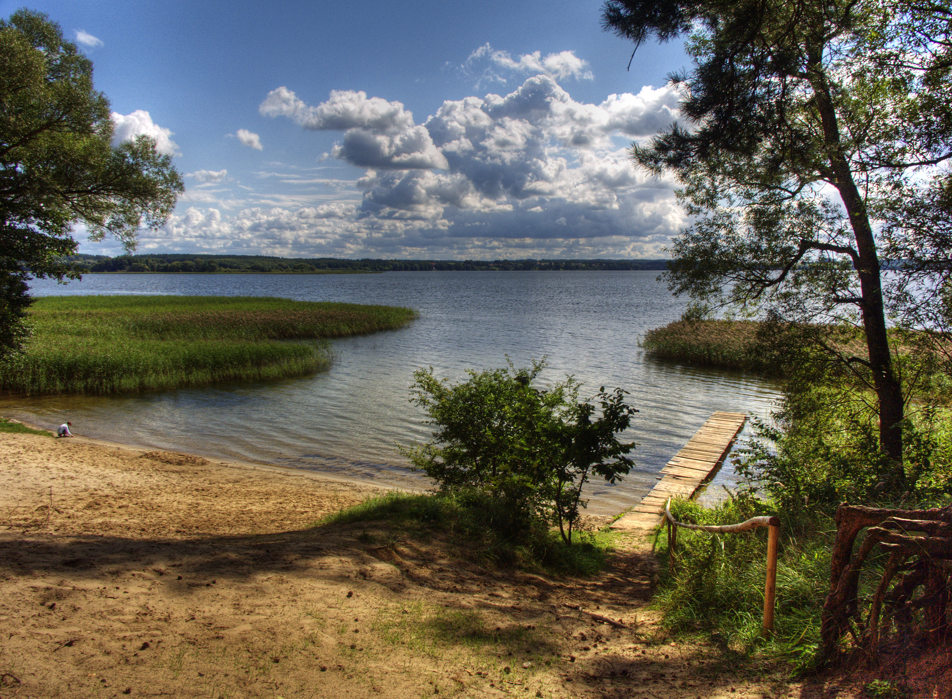 Gołdapiwo Lake, Poland